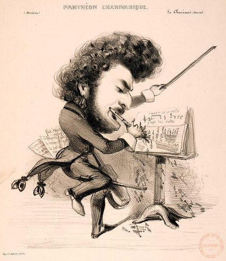 French conductor Louis-Antoine Jullien (1812—1860) mocked by painter Benjamin Roubaud (1811—1847) in his series of caricatures 'Le Panthéon charivarique' in the newspaper 'Le Charivari'